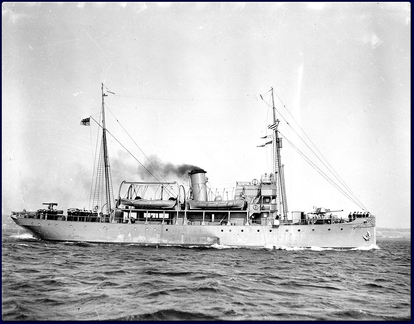 Photograph of Canadian hydrographic survey ship CSS Acadia, in her armed wartime configuration as HMCS Acadia.